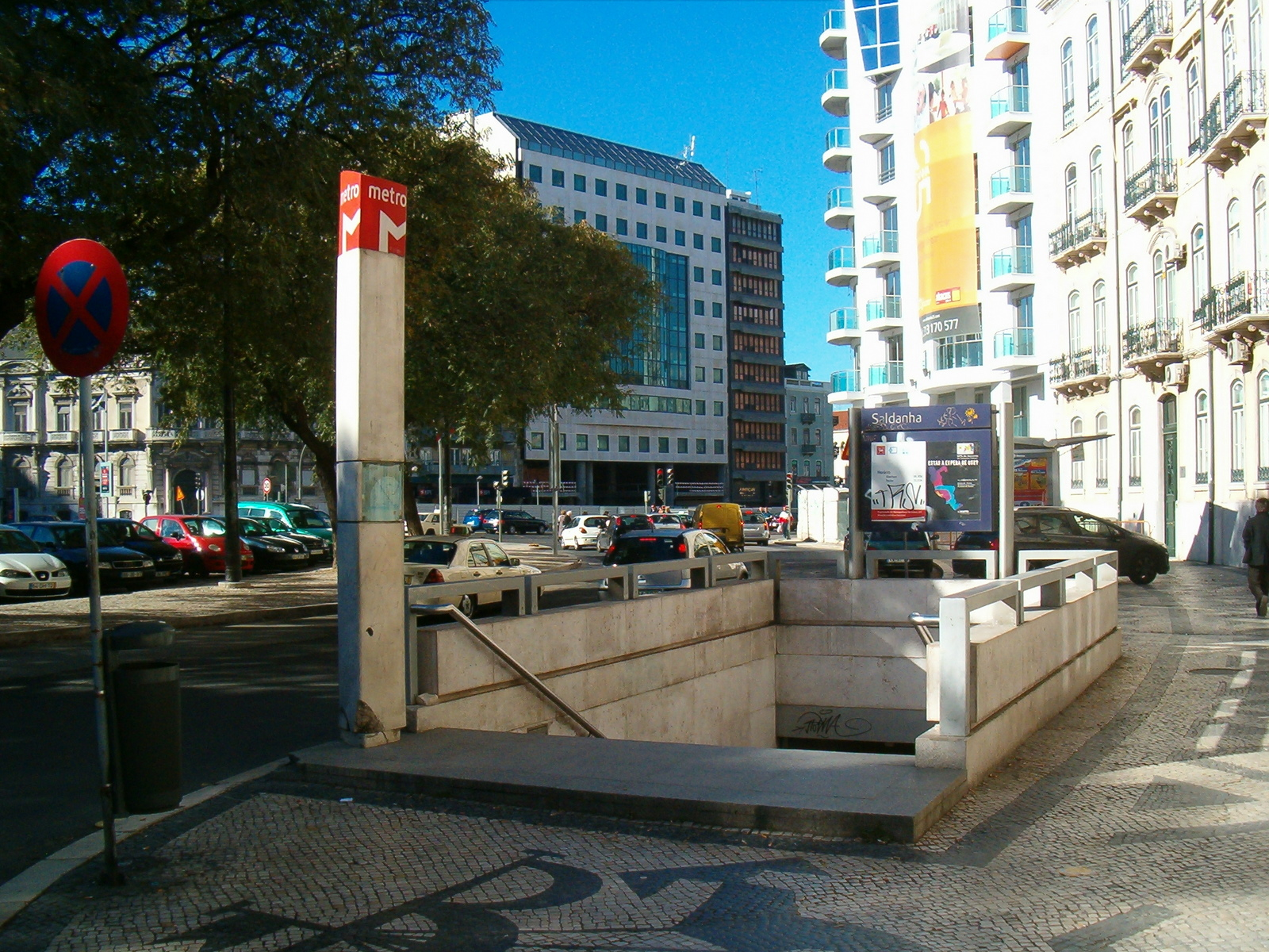 Metro station Saldanha (Lisboa)